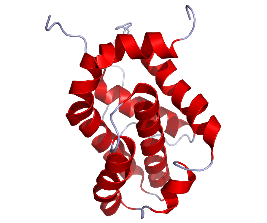 Solution structure of BCL-2 as published in the Protein Data Bank (PDB: 1G5M)